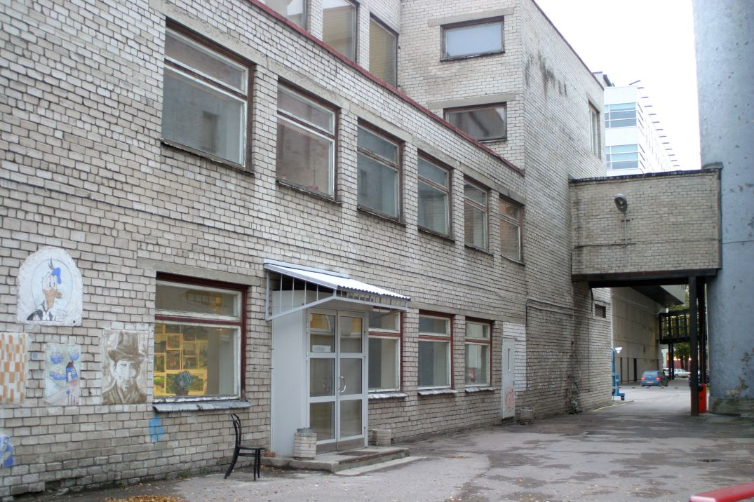 Ursa building